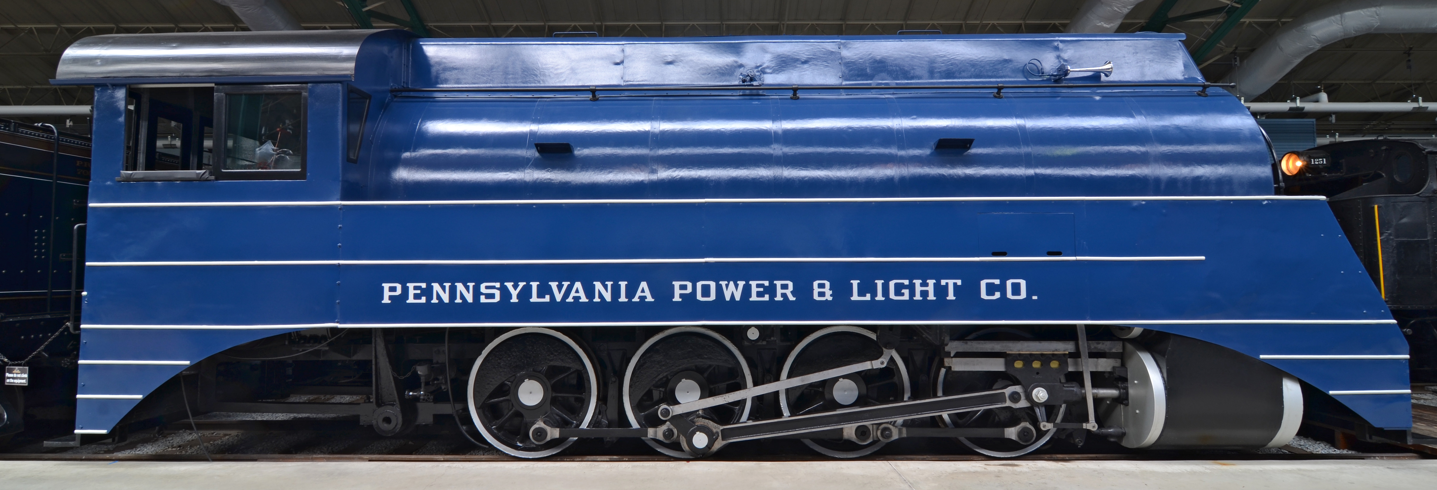 Side of the Pennsylvania Power and Light Company Fireless D No. 4094 at the Railroad Museum of Pennsylvania, east of Strasburg, PA. This is a fireless 0-8-0 locomotive. The car is listed on the roster as RR72.20.1A. It is the largest fireless locomotive ever built. It was built for the Hammermill Paper Company, but it turned out to be too heavy for their tracks.